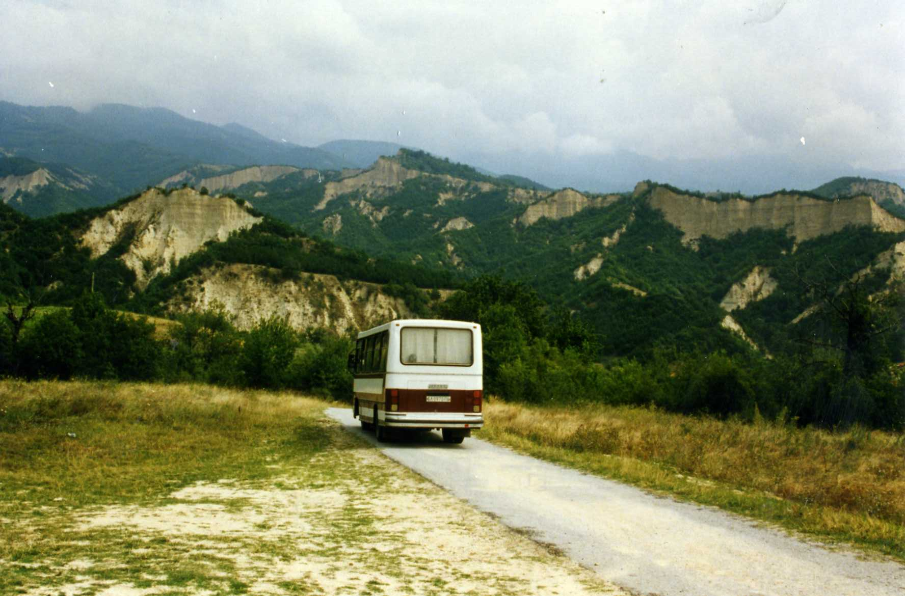 Not a full-size vehicle. Bulgarian Chavdar coach near Bansko, Pirin mountains.